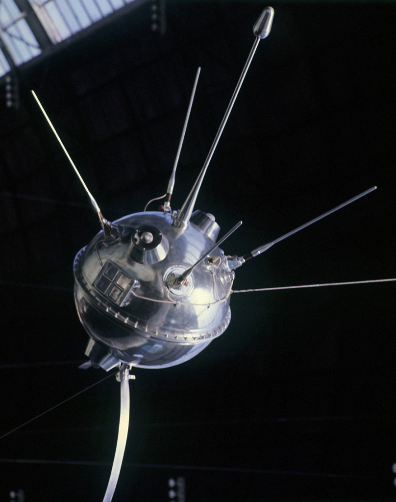 “Interplanetary station Luna 1”. Interplanetary station Luna 1 exhibited in the "Kosmos" pavilion of the Exhibition of Achievements of National Economy of the USSR (VDNKh).